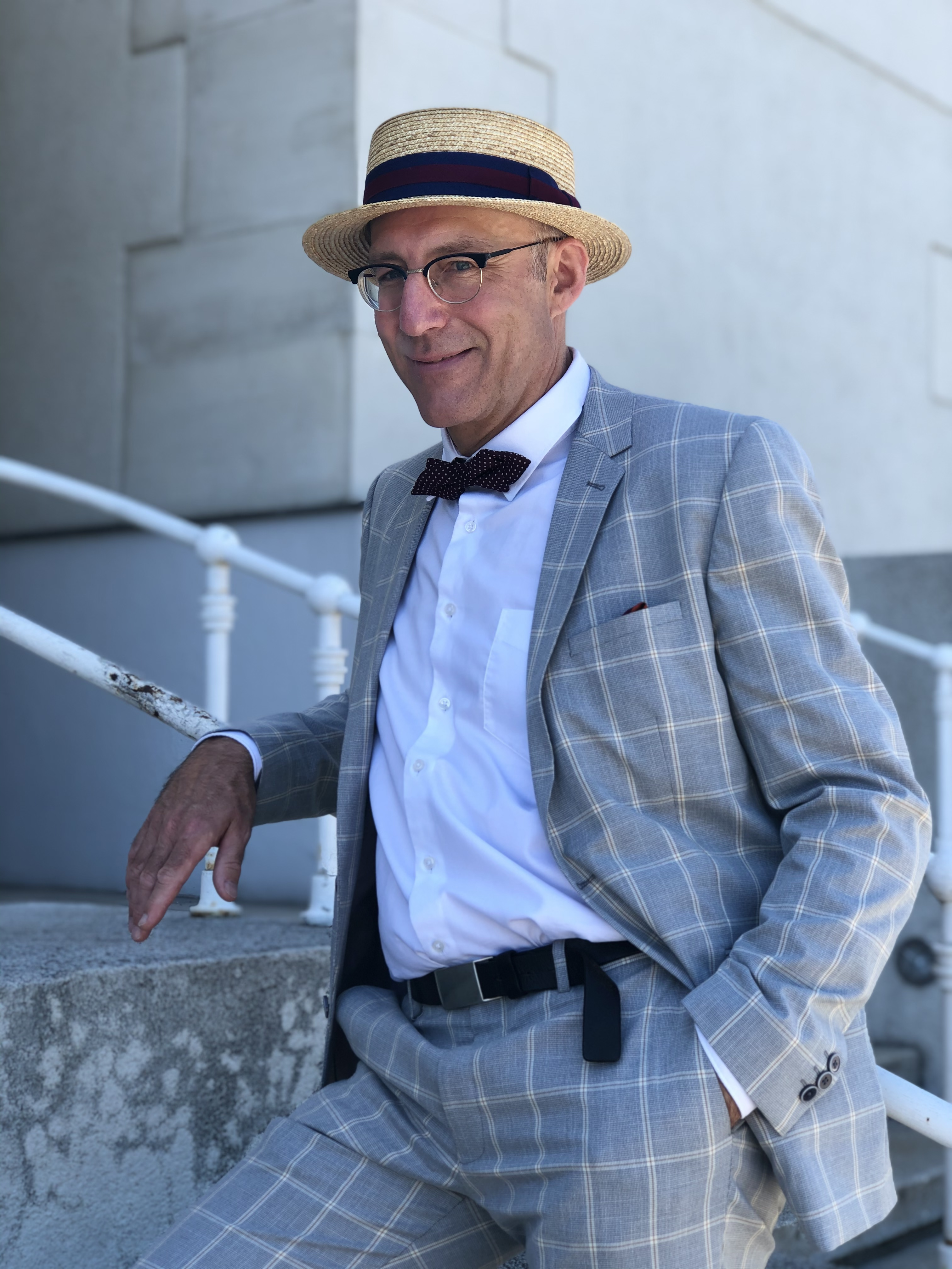 German writer Ewald Arenz